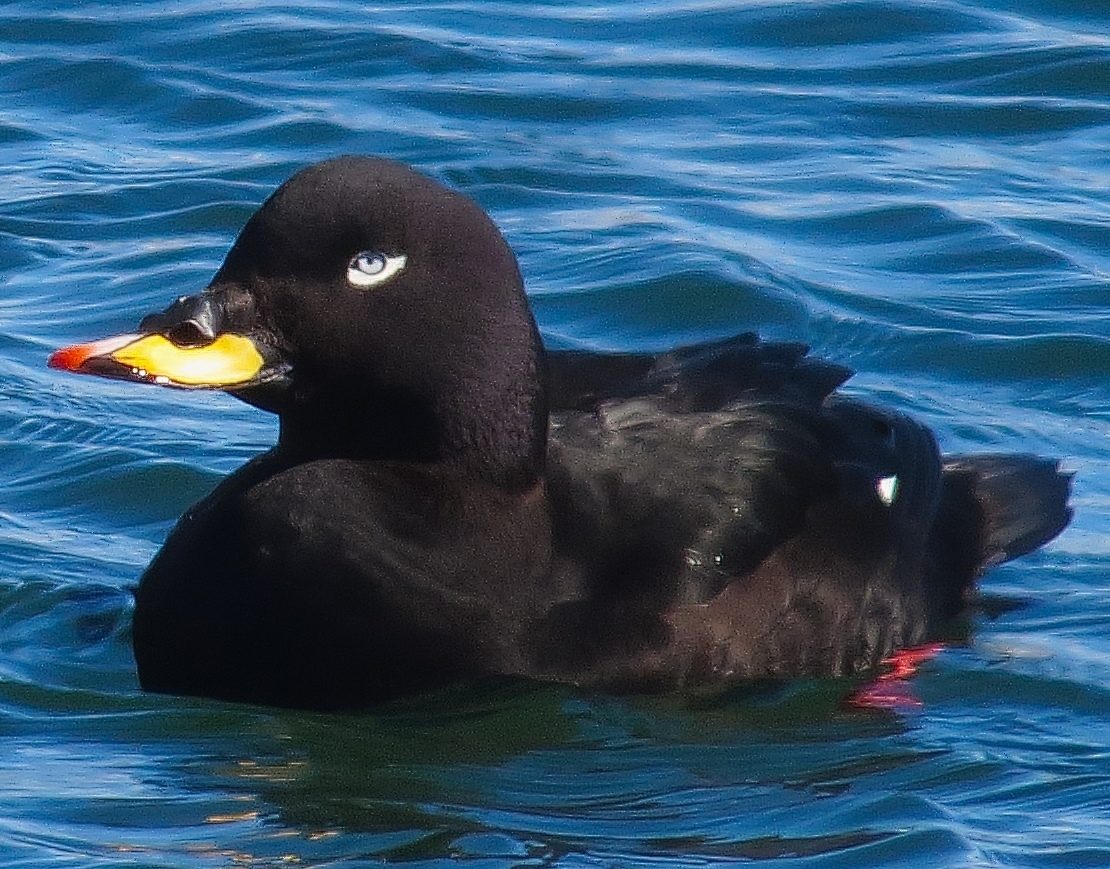 Velvet Scoter Melanitta fusca, Glommens Hamn, Falkenberg, Sweden